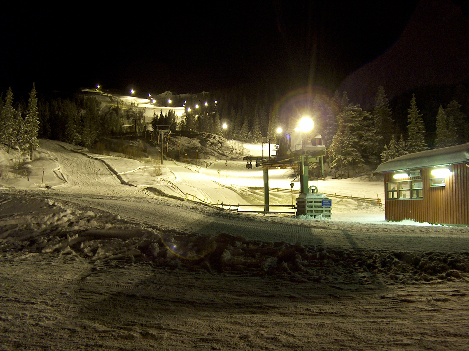 This is Haugsdalen Skicenter